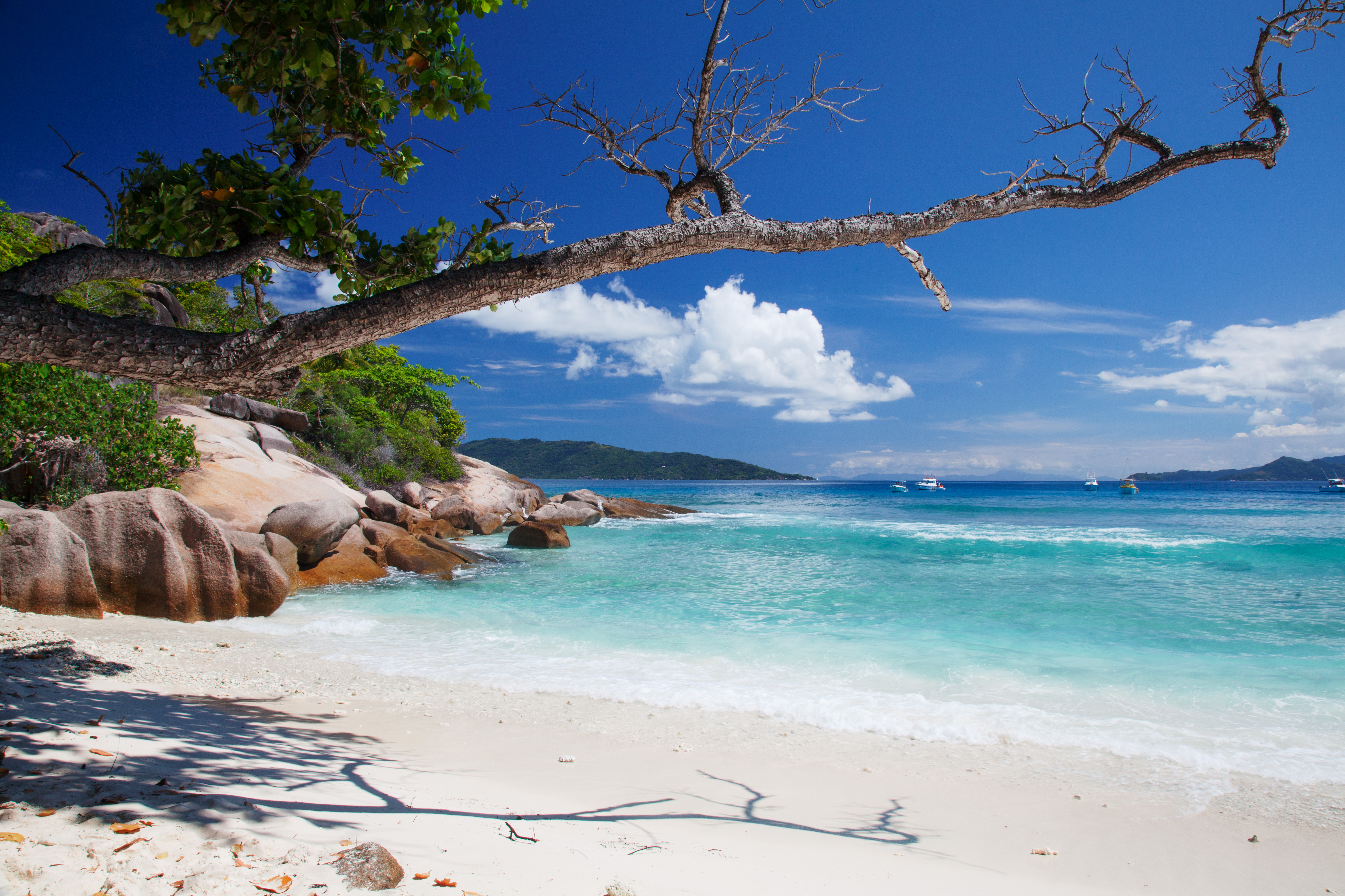 Grande Soeur, a small island near La Digue, Seychelles